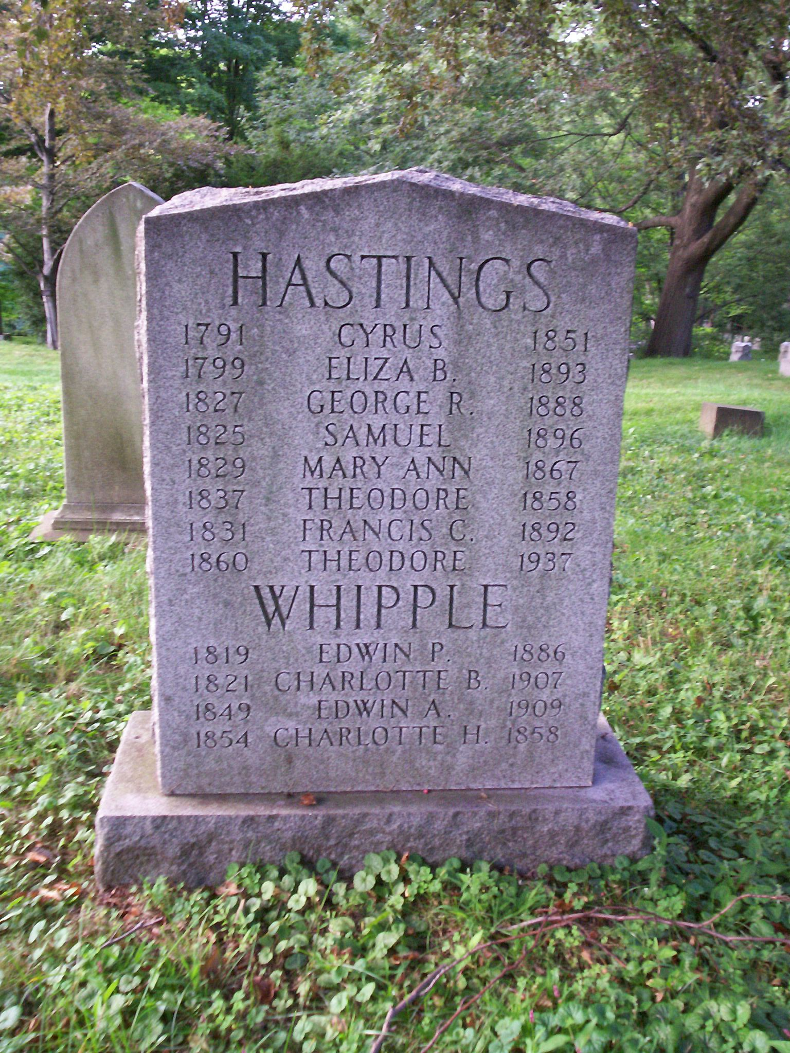 Headstone for American essayist and critic Edwin Percy Whipple and other family members - Mount Auburn Cemetery in Cambridge, Massachusetts